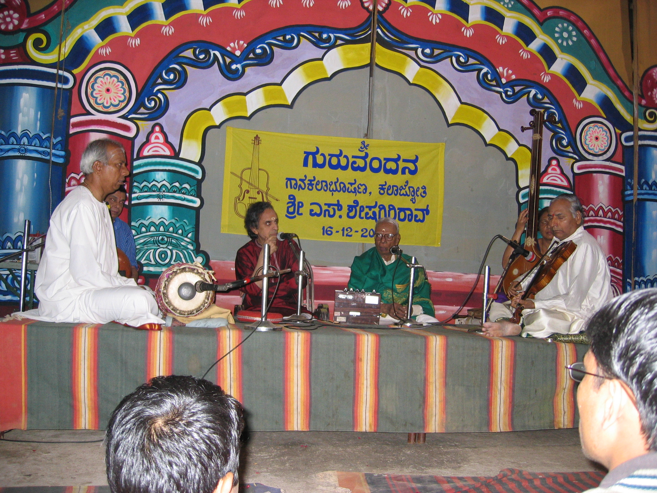 Carnatic concert of Dr. R.K. Srikantan accompanied by Sri. R.S. Ramakanth (his son) on vocal support, Sri. S. Sheshagiri Rao on the Violin, Sri. T.S. Chandrashekhar on Mrudanga and Sri S. Srishyla on the Ghata